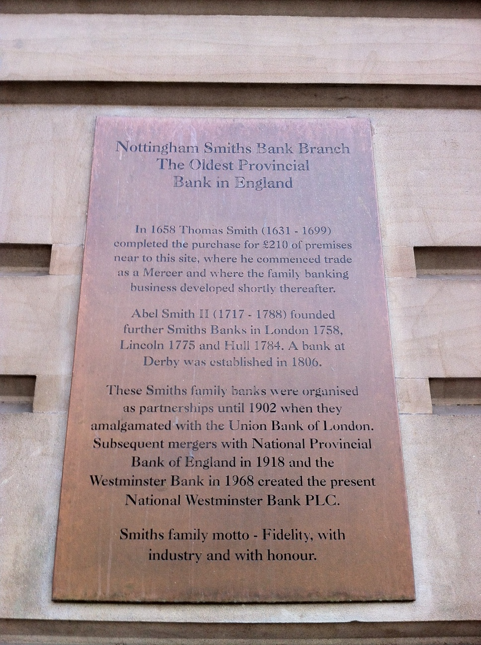 Historical plaque on Smith's Bank in Nottingham, the oldest provincial bank in England.